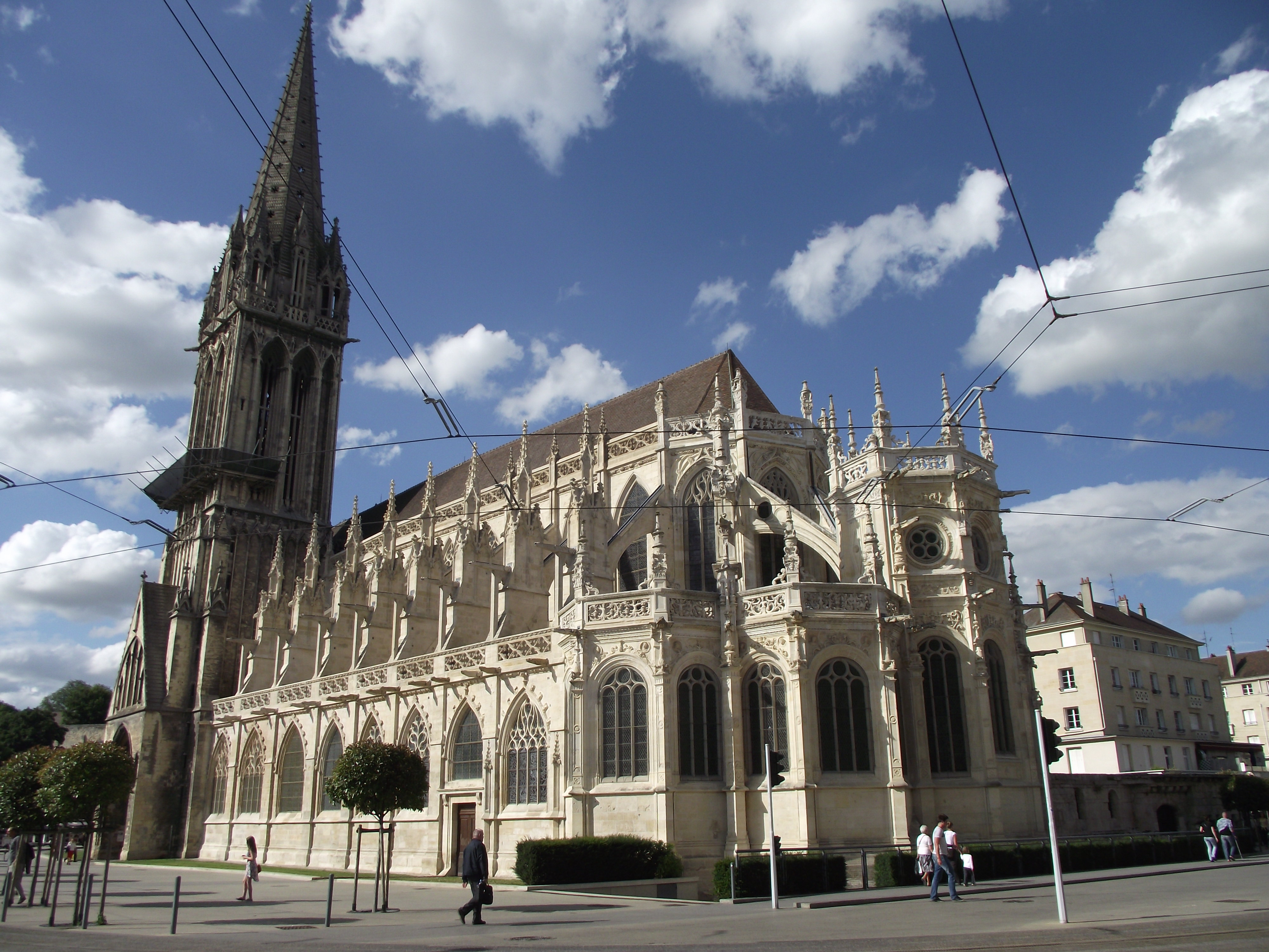 Caen, St Peter's Church, XIII-XVI Century